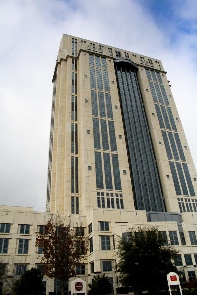 reach the sky